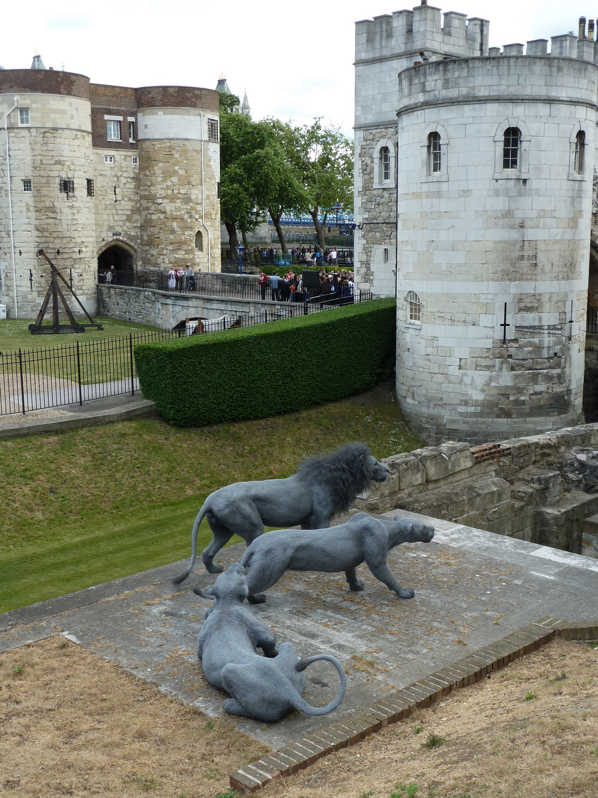 A Tower bejárata (The entrance of the Tower)